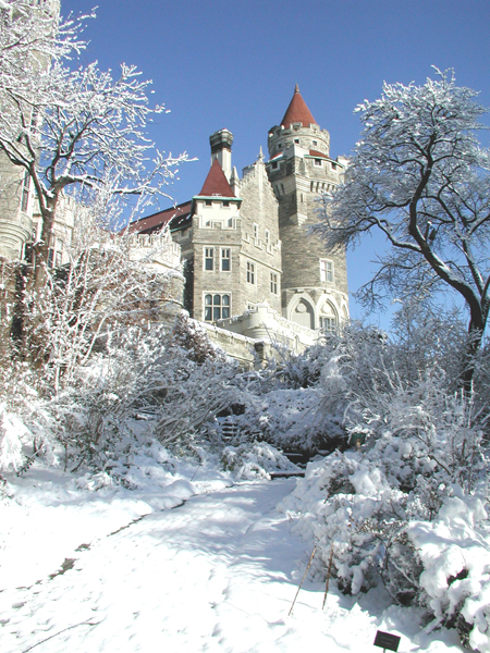 Casa Loma in the Winter, 1 Austin Terrace, Toronto, Ontario, Canada.